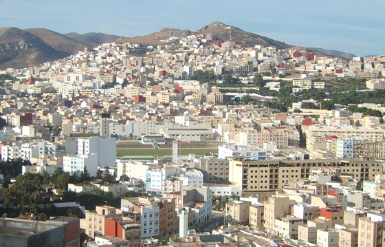 View of Downtown Al Hoceima